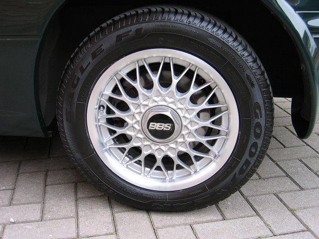 BBS forged cross-spoke aluminium wheel from a 1991 Eunos Roadster (Mazda Miata).